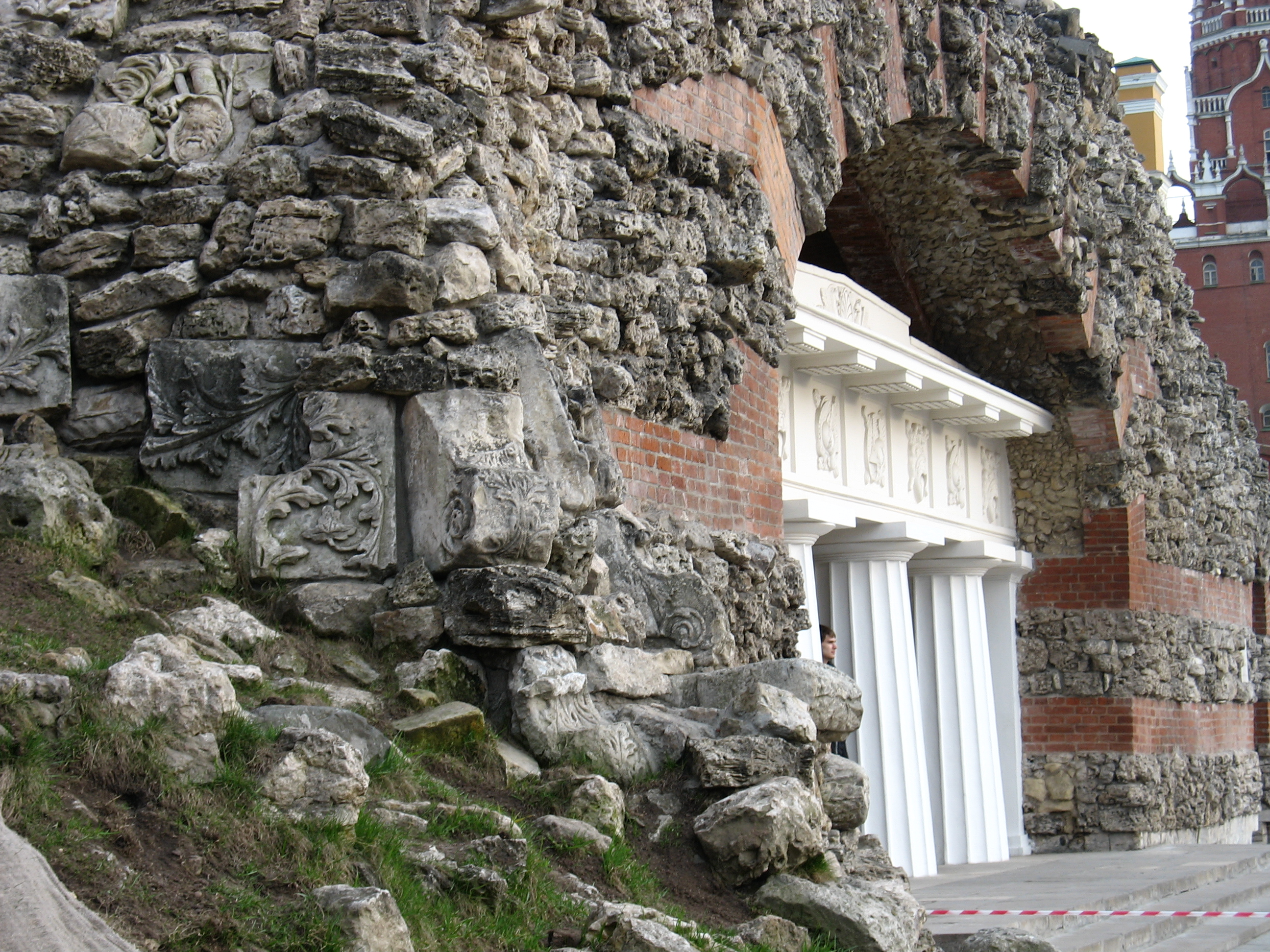 Grotto in Alexander Garden near from Moscow Kremlin